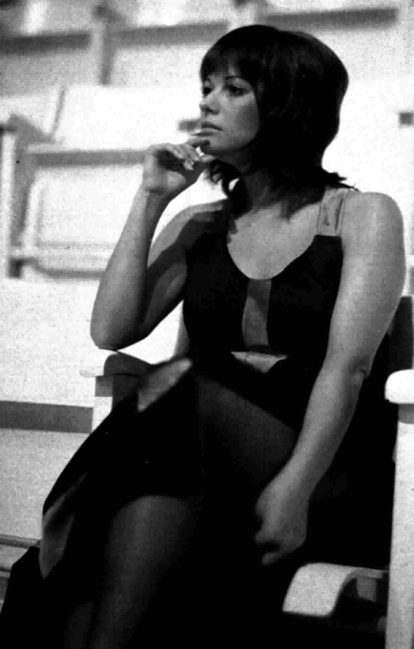 Italian actress Claudia Cardinale, guest of the Italian TV show Teatro 10, Rome